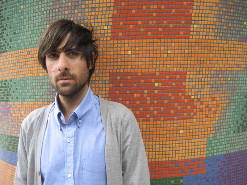 Leadman Jason Schwartzman